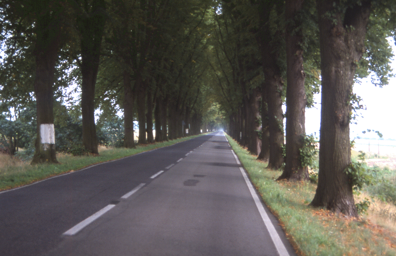 Landroad with rows of trees in the German country of Brandenburg